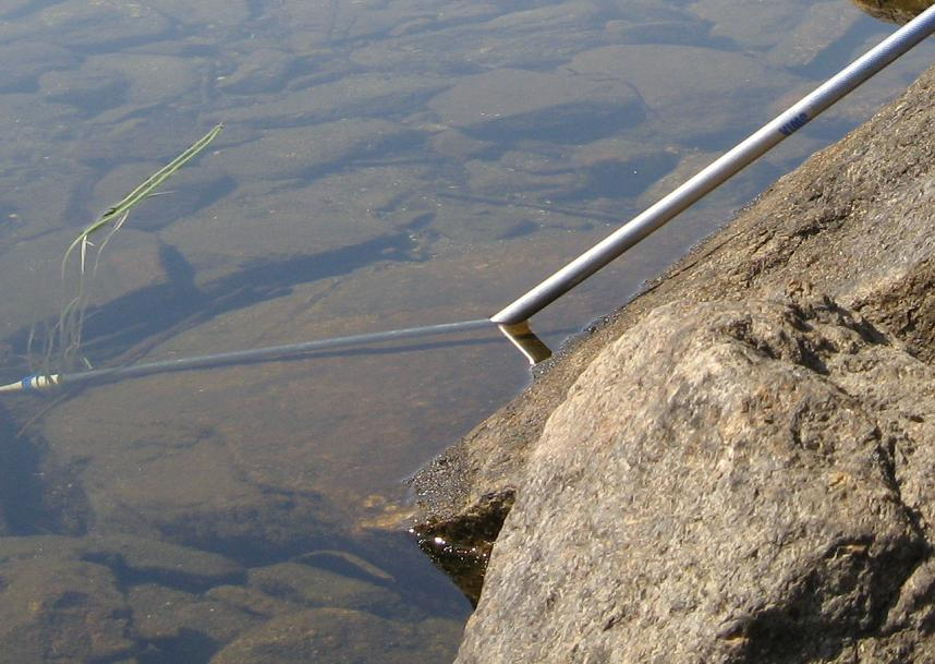 An example of refraction at a steep angle of incidence